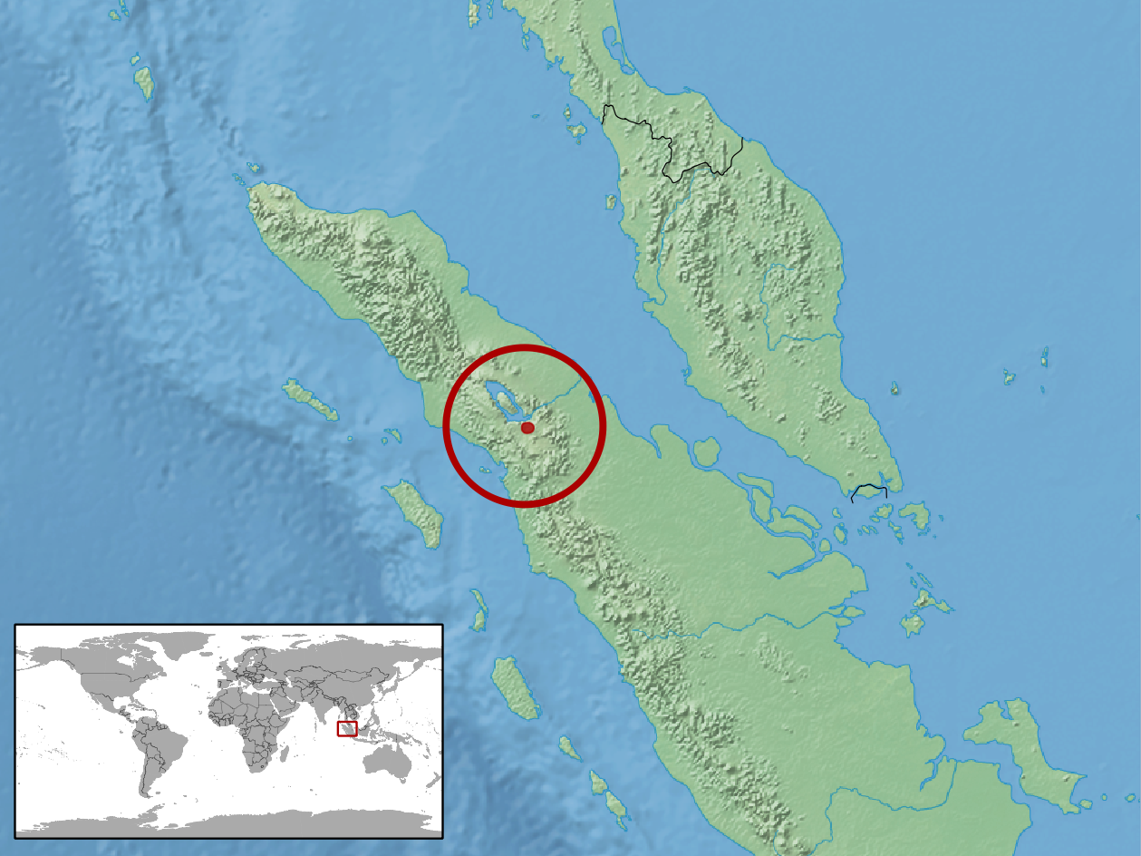 geographic distribution of Harpesaurus modigliani syn Harpesaurus modiglianii (Native: Indonesia)